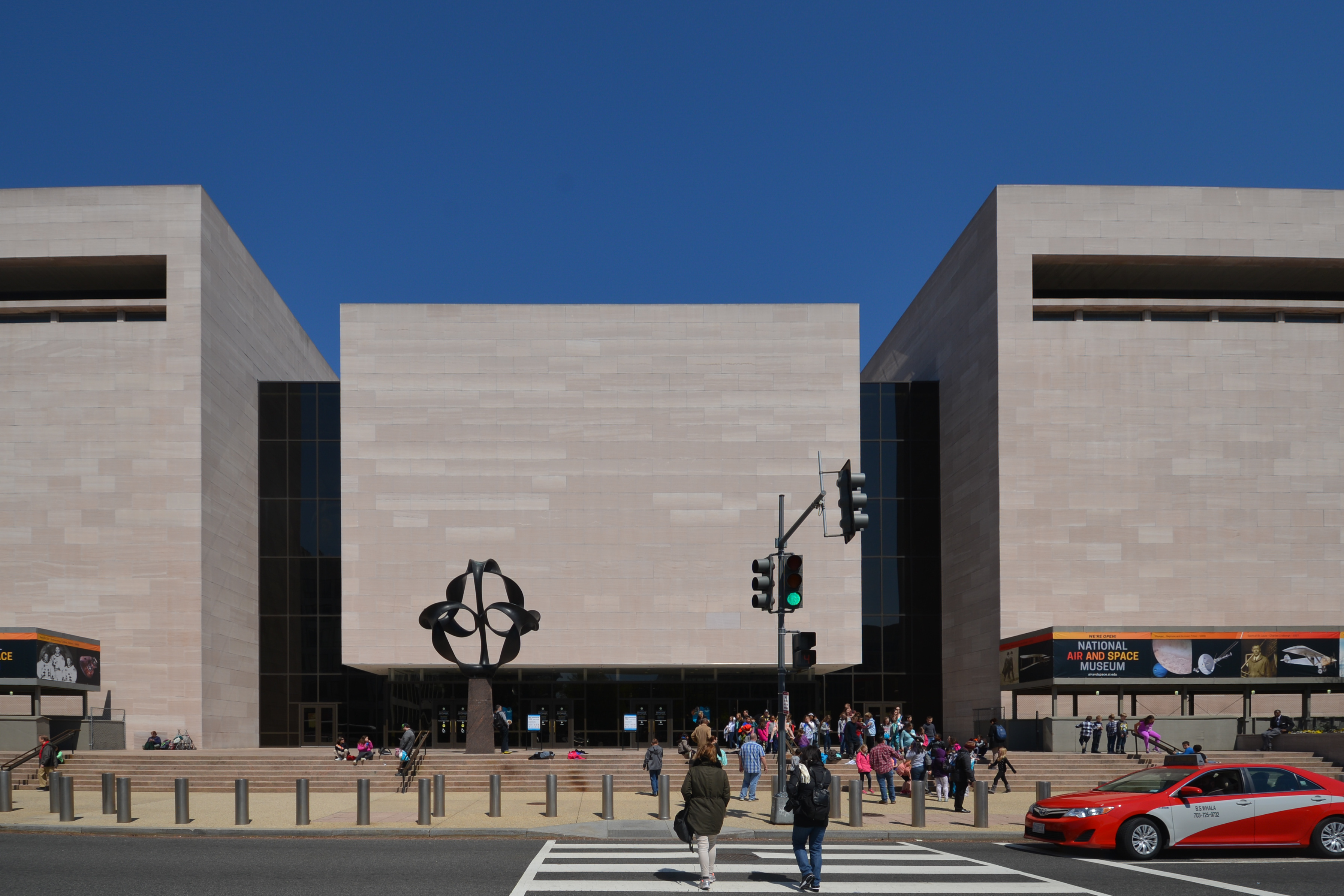 02638-National-Air-and-Space-Museum